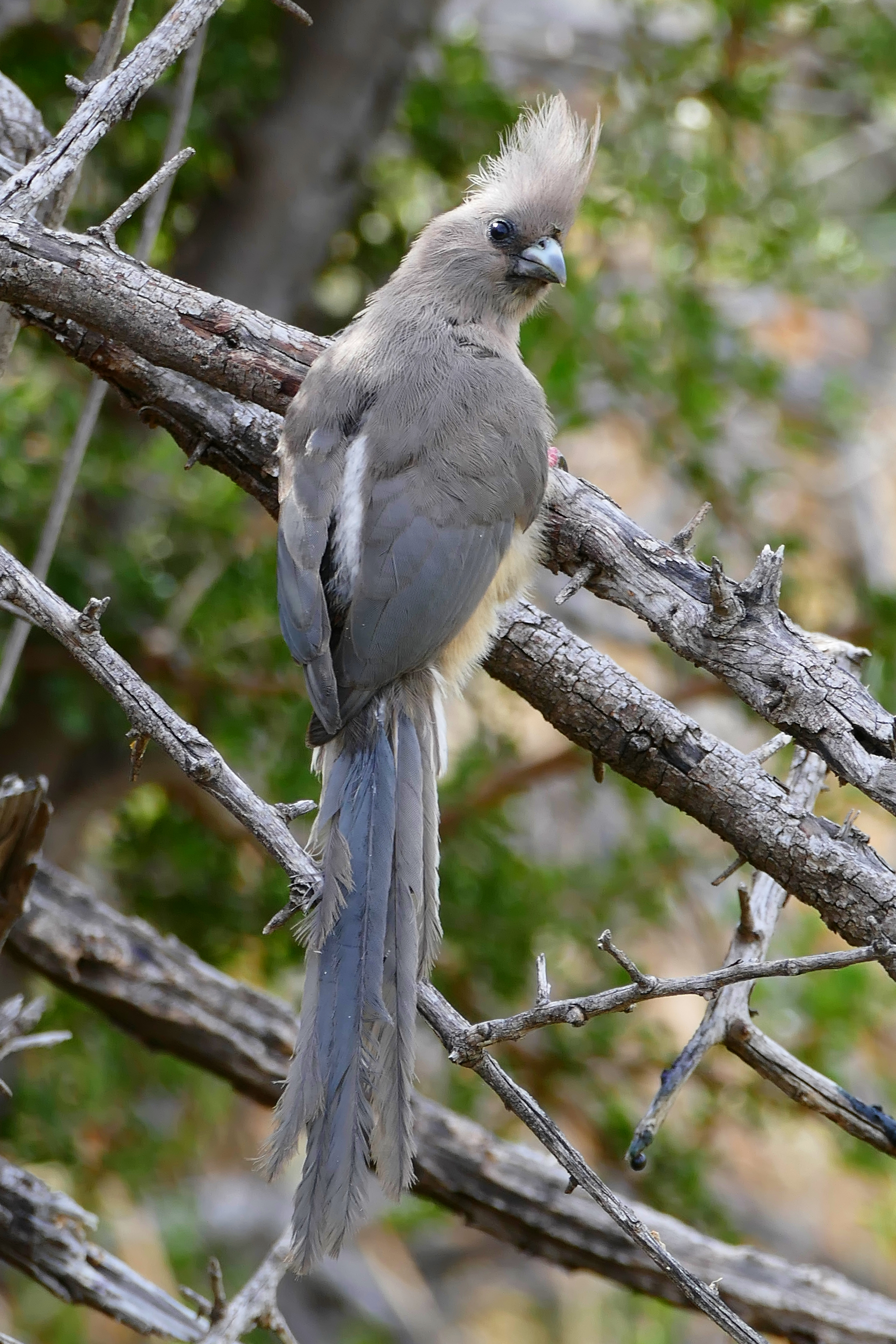 Bird Hide, Main Rest Camp, Karoo NP, Western Cape, SOUTH AFRICA